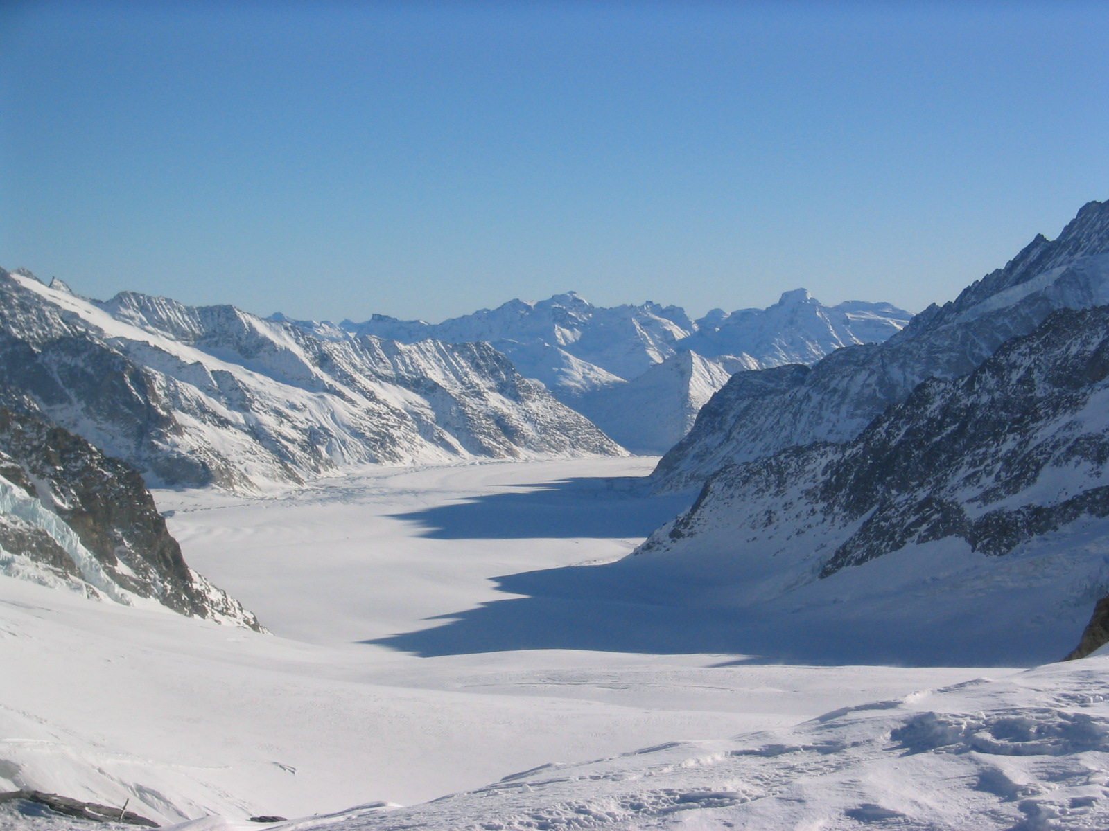 Jungfraujoch